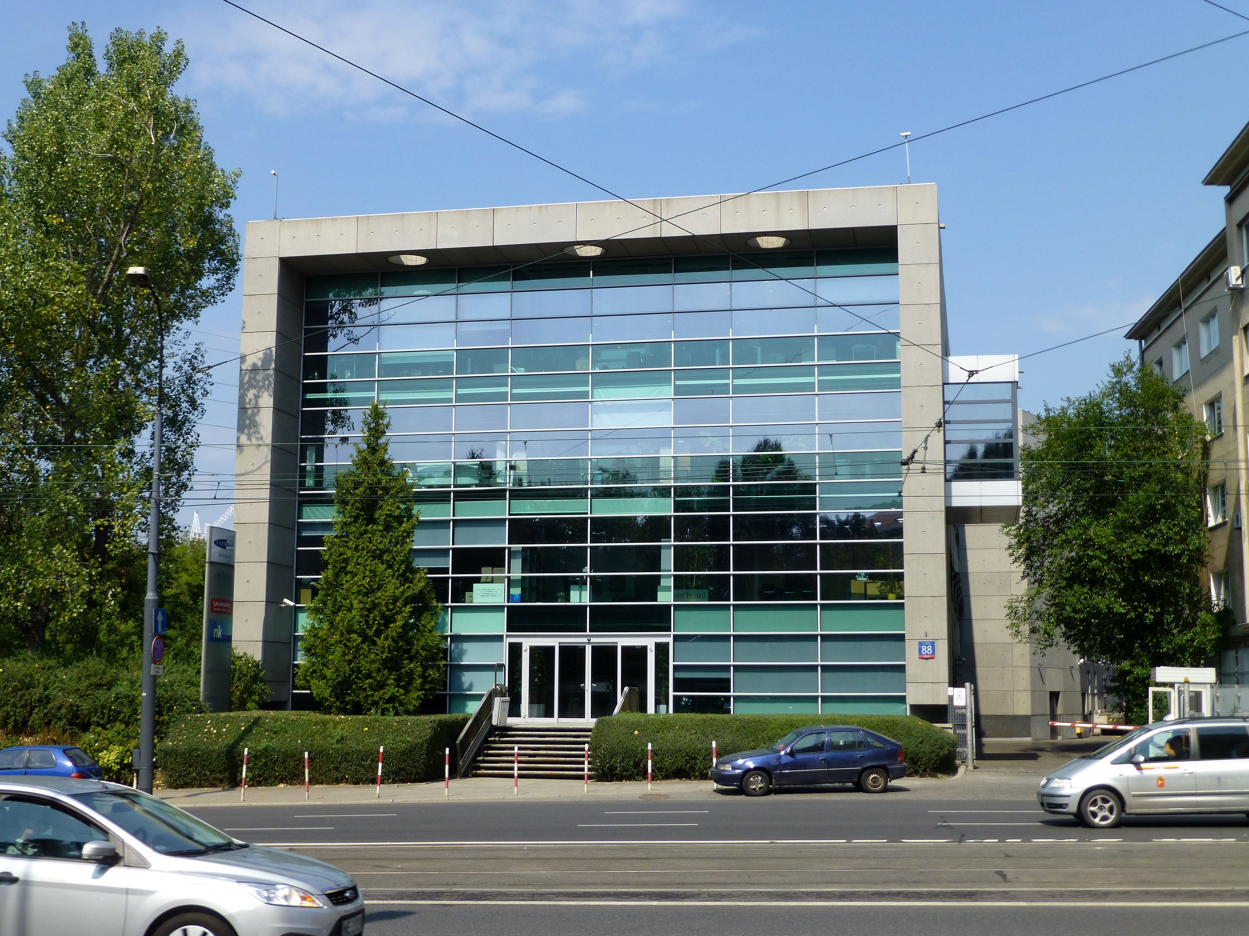 Reprograf building in Warsaw, arch. Kuryłowicz i Ska